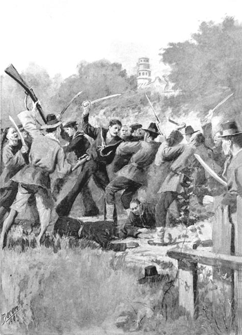 "A desperate hand-to-hand fight took place" Halftone reproduction of an artwork, published in Deeds of Valor, Volume II, page 89, by the Perrien-Keydel Company, Detroit, 1907. Depiction of an engagement in the 1871 Korean Expedition, also known as the Sinmiyangyo. This image shows United States Navy sailors William F. Lukes, Seth Allen, and Thomas Murphy battling Koreans while trying to rescue the mortally wounded Lieutenant Hugh W. McKee during the capture of the Han River forts, 11 June 1871. Lukes, the only survivor of the U.S. Navy group, received the Medal of Honor for continuing to fight after receiving a head injury.